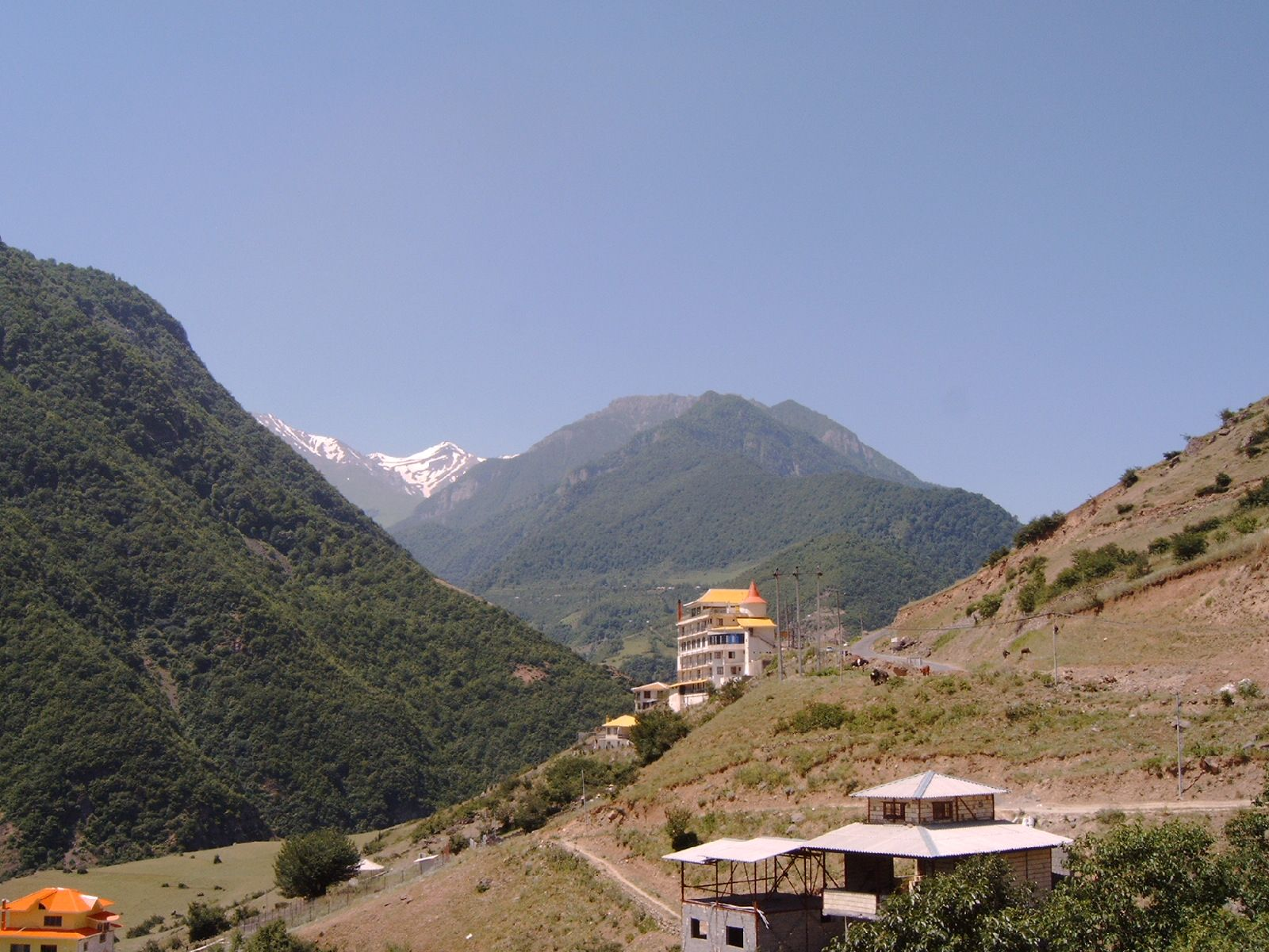 Nord Iran Gilan Provinz Autor:Mr.minoque Juni 2006